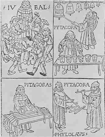 Pythagorean Harmonics Woodcut 1492 by farino The hellenic world